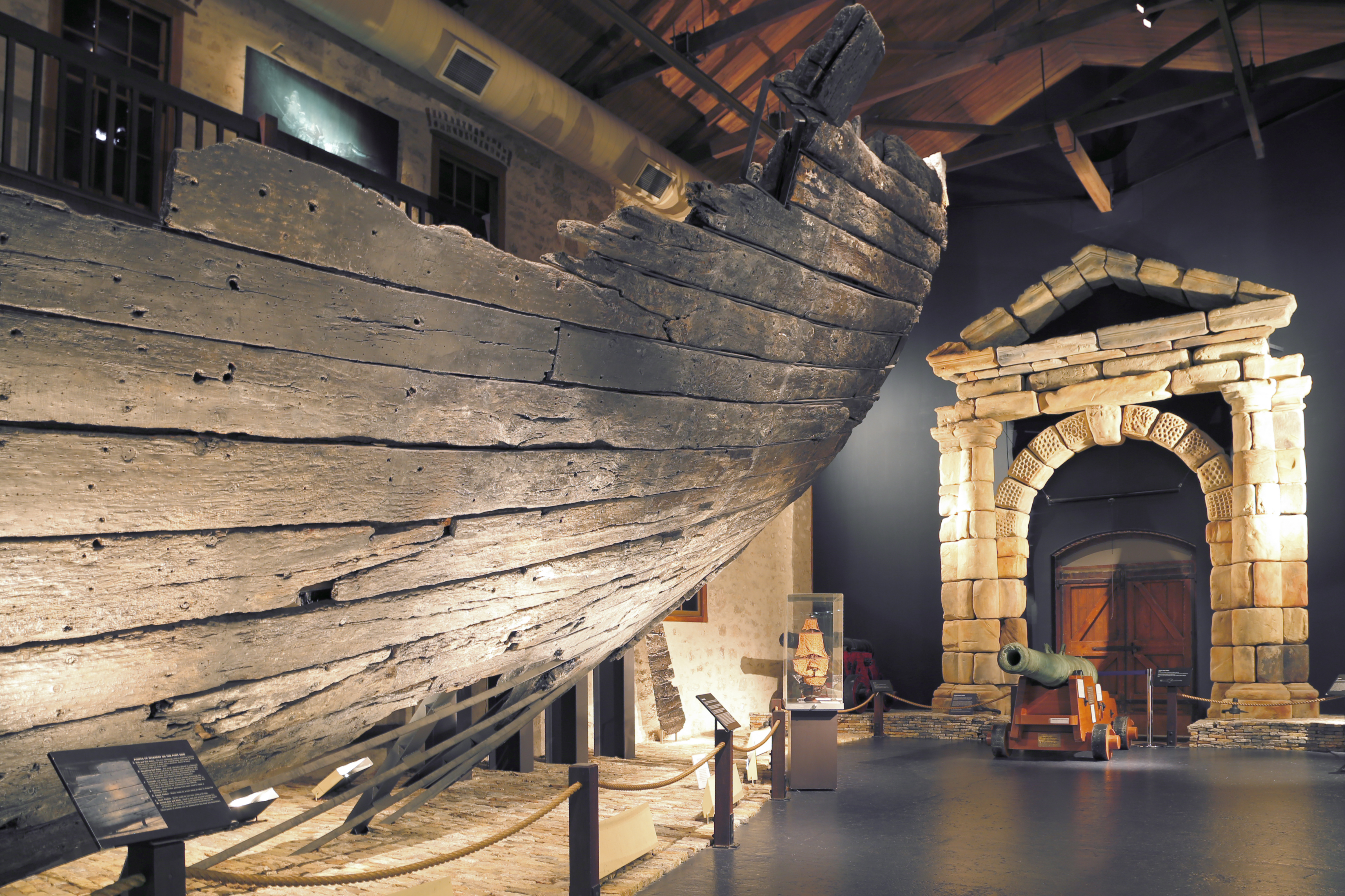 Shipwreck Galleries, Fremantle, WA. Stern section of the Batavia hull and gateway replica.